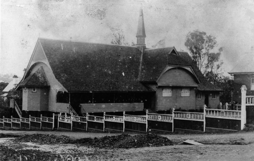 Christ Church, Milton, Brisbane, Queensland, Australia, 1912. The second church on this site. Designed by John Hingestone Buckeridge